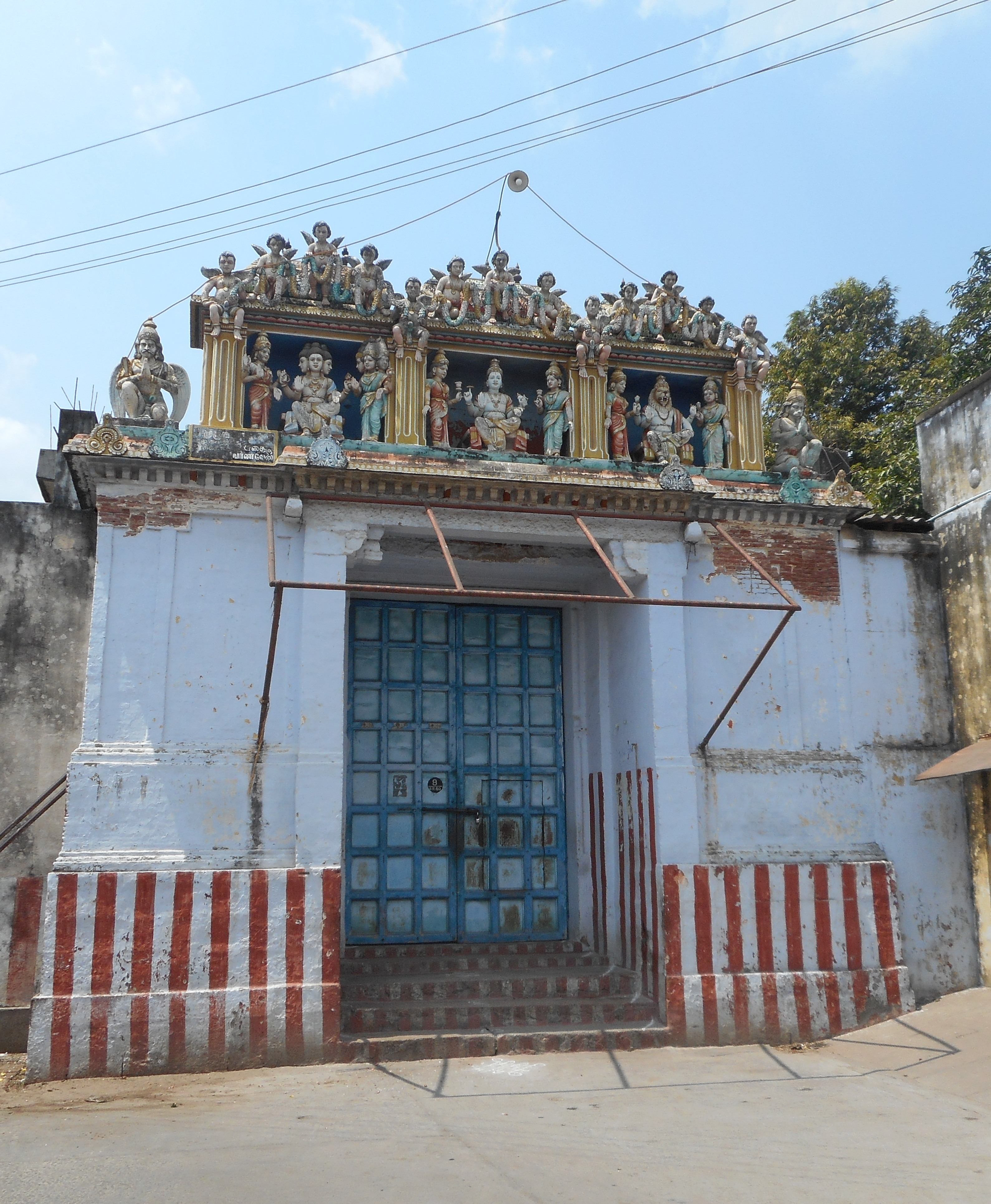 Kumbakonam Vedanarayanaperumal temple கும்பகோணம் வேதநாராயணப்பெருமாள் கோயில்